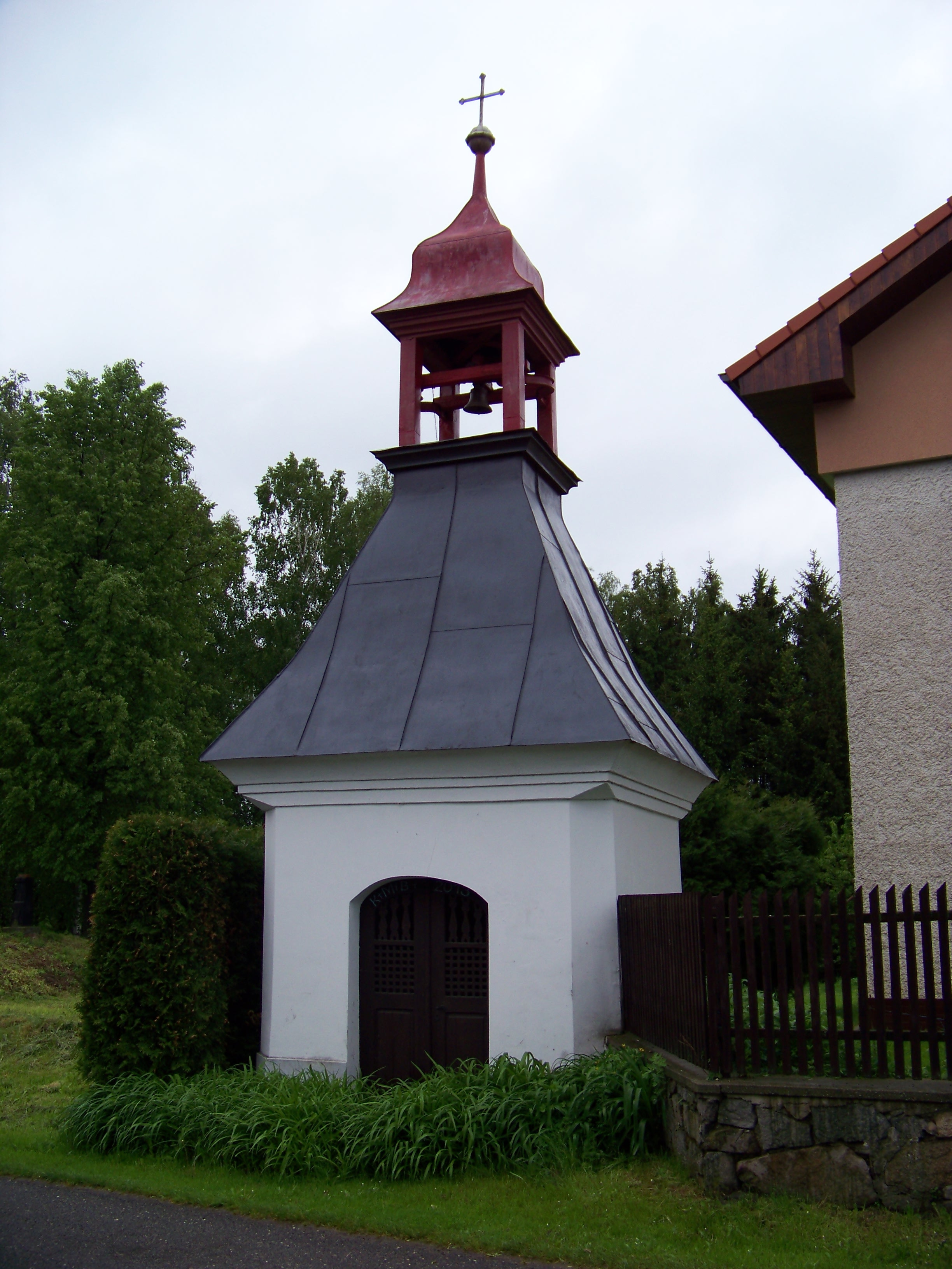 Bystřice-Drachkov, Benešov District, Central Bohemian Region, the Czech Republic. A chapel/belfry.